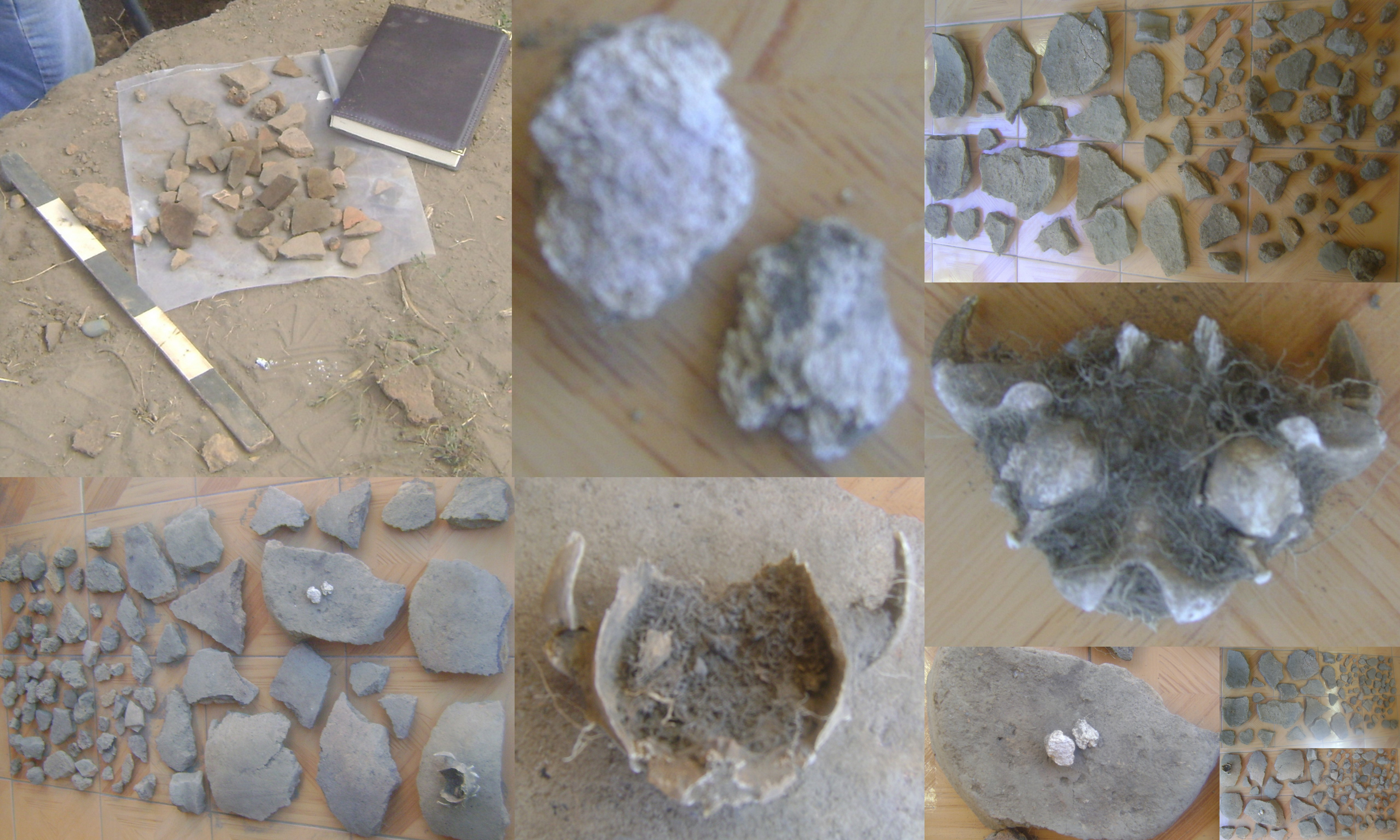 Vestige of jars of pottery, bone and coprolite found, on Saturday, February 20, 2010, in site Archaeological Monument of Negrete's Fort, and taken, on Friday, February 26, 2010, by Marco Sanchez Aguilera anthropologist at the Natural History Museum from Concepcion, Chile